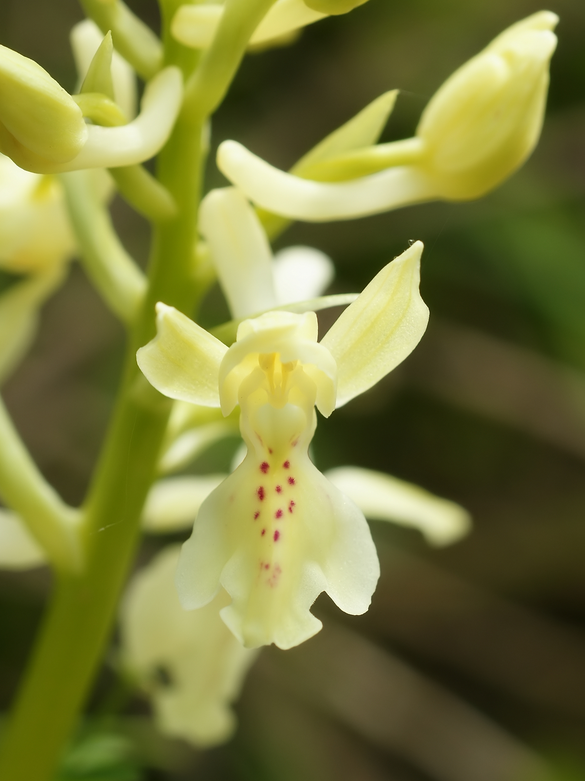 Provence Orchid. Approximate co-ordinates: plant located within 5 km from Ovodda, Sardinia, Italy